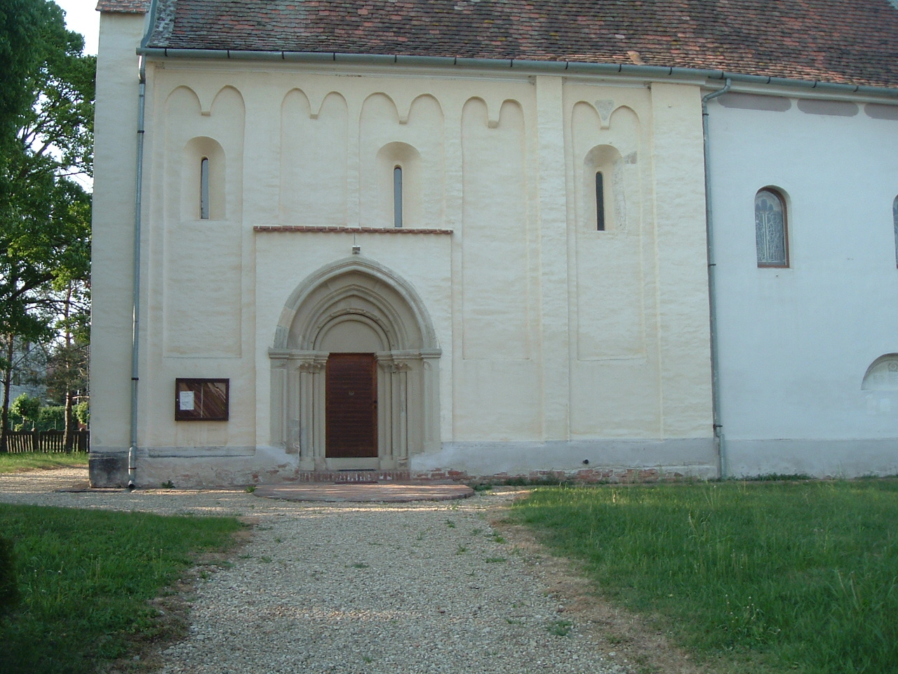 Meszlen, The ancient doorway of the Roman Catholic Church. Bűn nélkül fogantatott Szűz Mária római katolikus templom